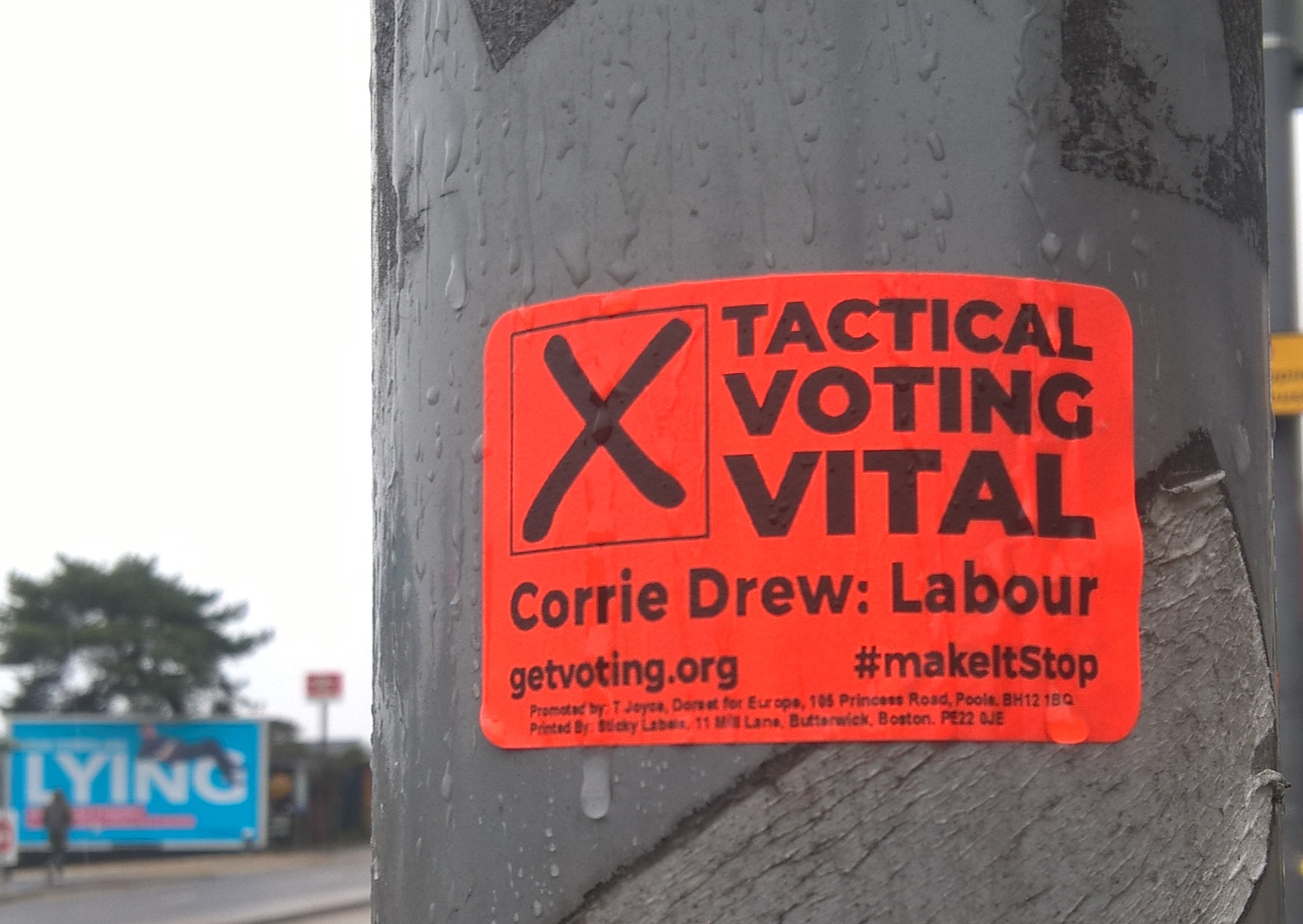 A sticker asking for voters to vote tactically in the 2019 UK elections